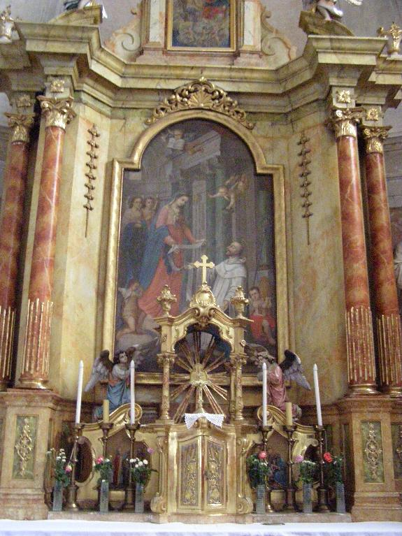 The high altar in the Istvánfalvian Church (Legend of St. Stephanus Harding)